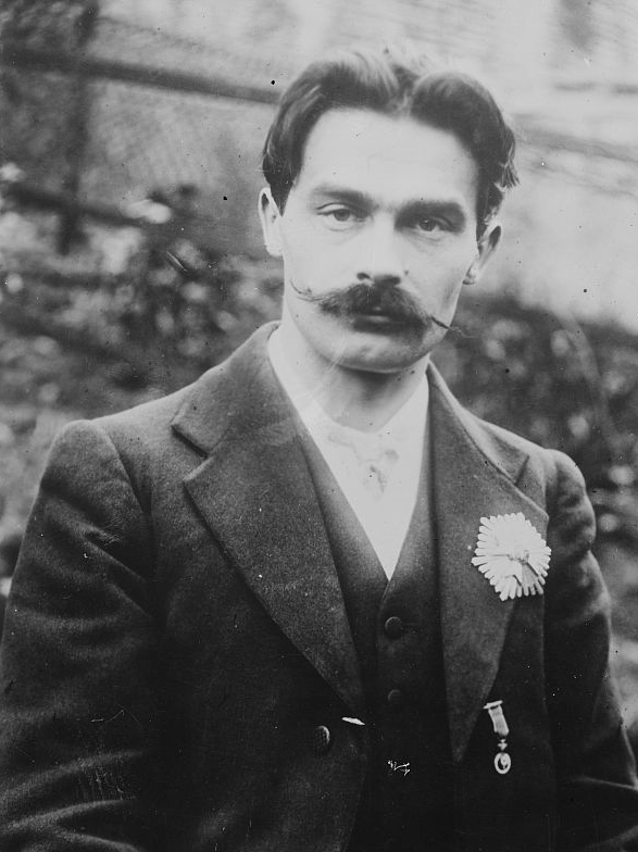 Paweł Zbawca Piast-Riedelski (b. 1884), pretender to the Polish throne.